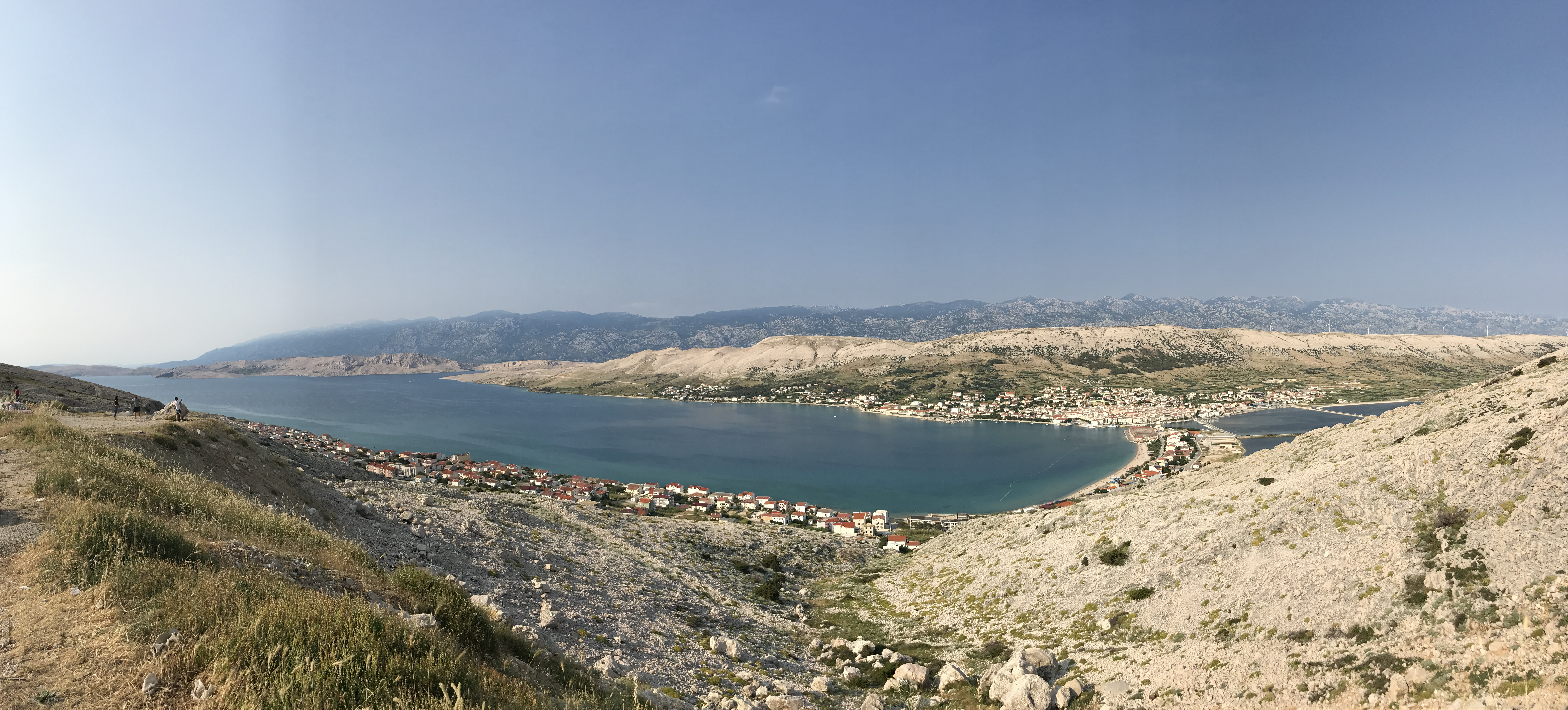 Near island of Pag